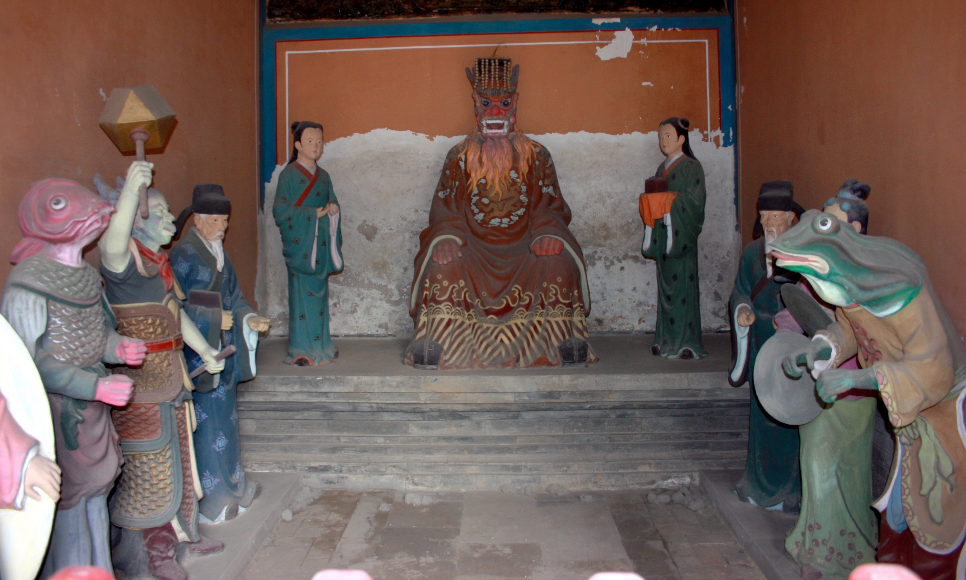 Photograph of statues representing the "Department of rain gods" in the Dongyue Temple, Beijing, China.